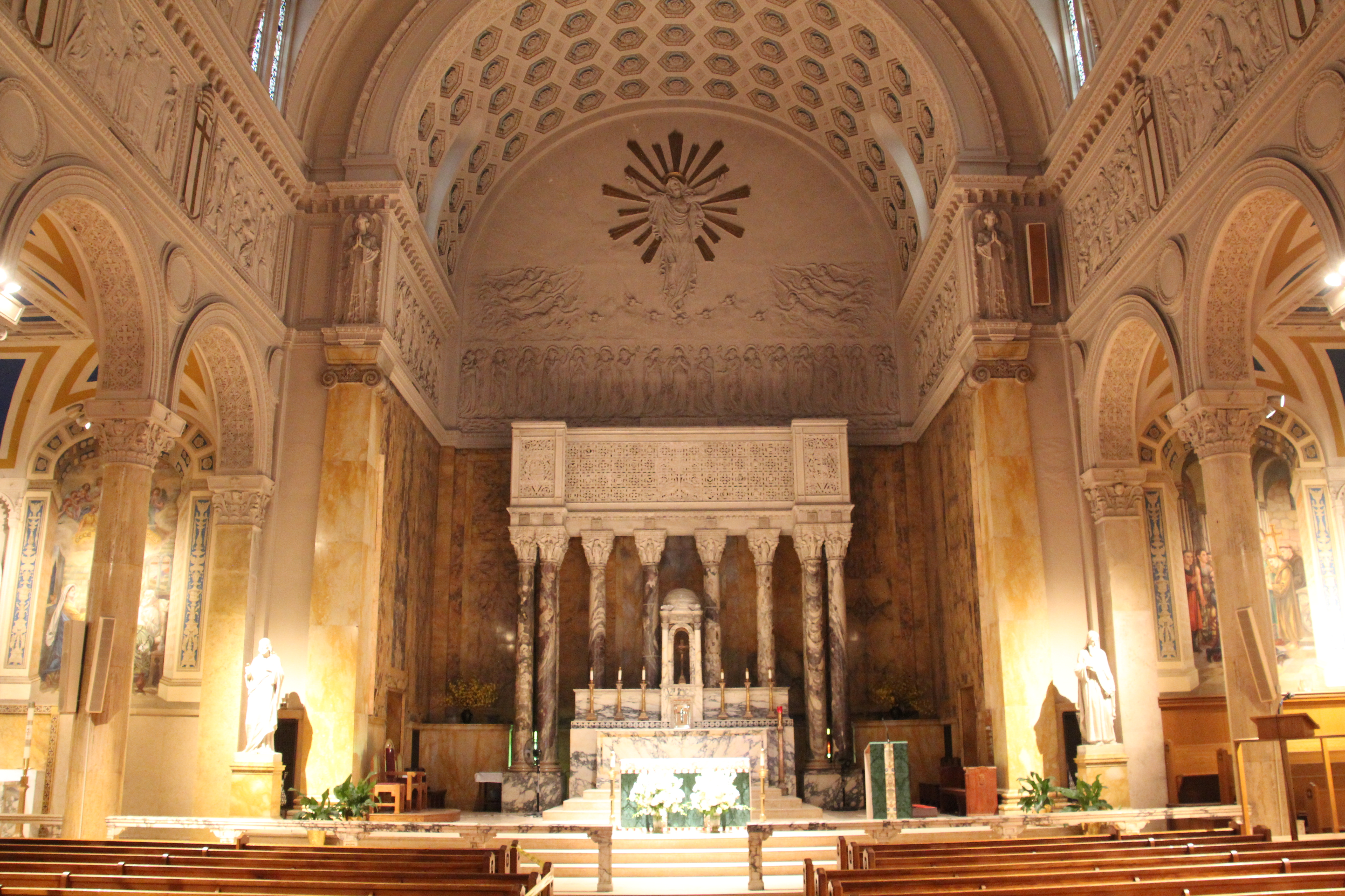 The interior of St. Paul Church, Cambridge, Massachusetts, US. 29 Mt Auburn St, Cambridge, MA 02138 US